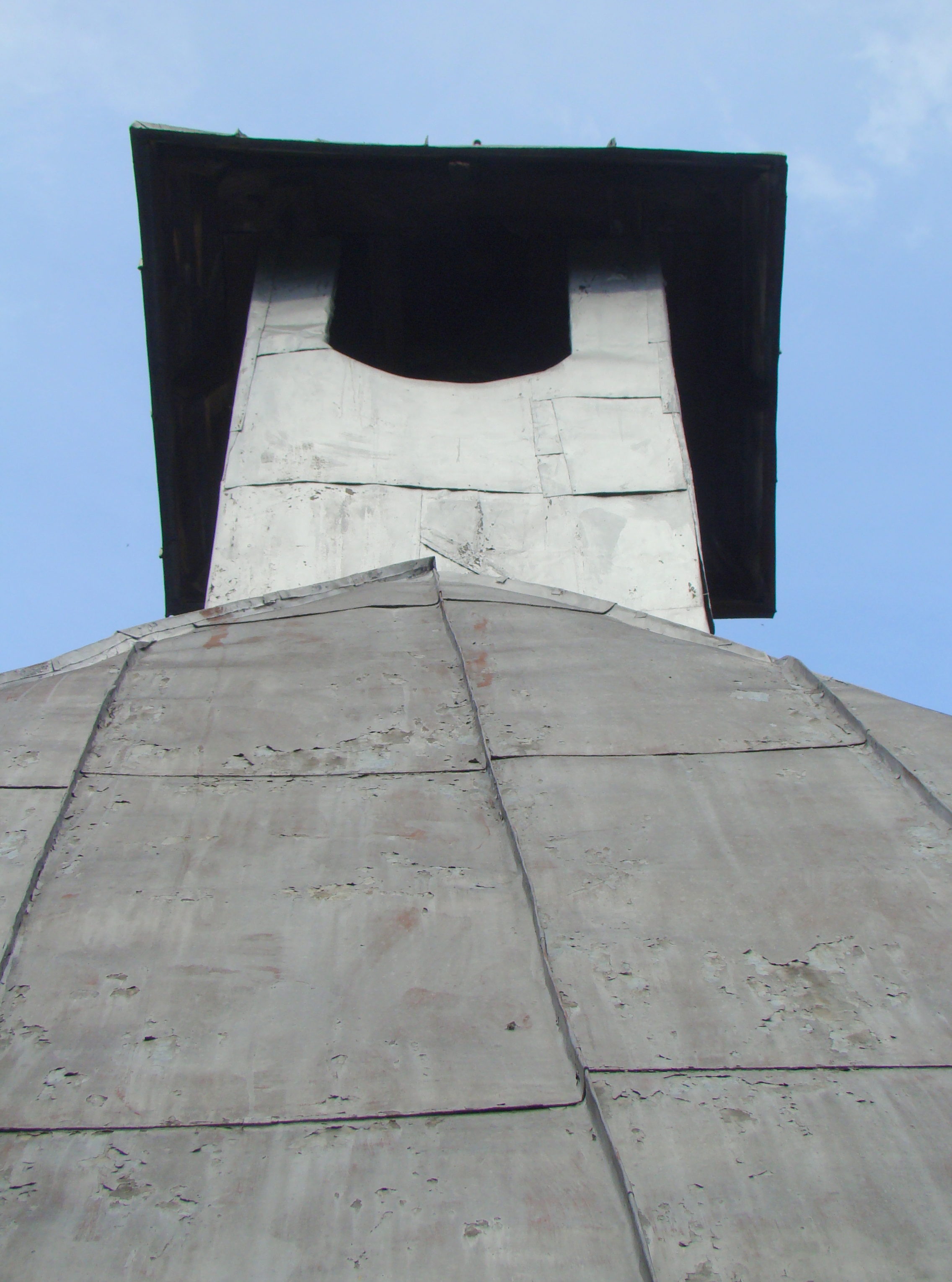 Wooden church in Urechești, Gorj county, Romania